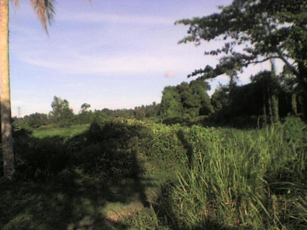 Evening Landscapes/Scenary